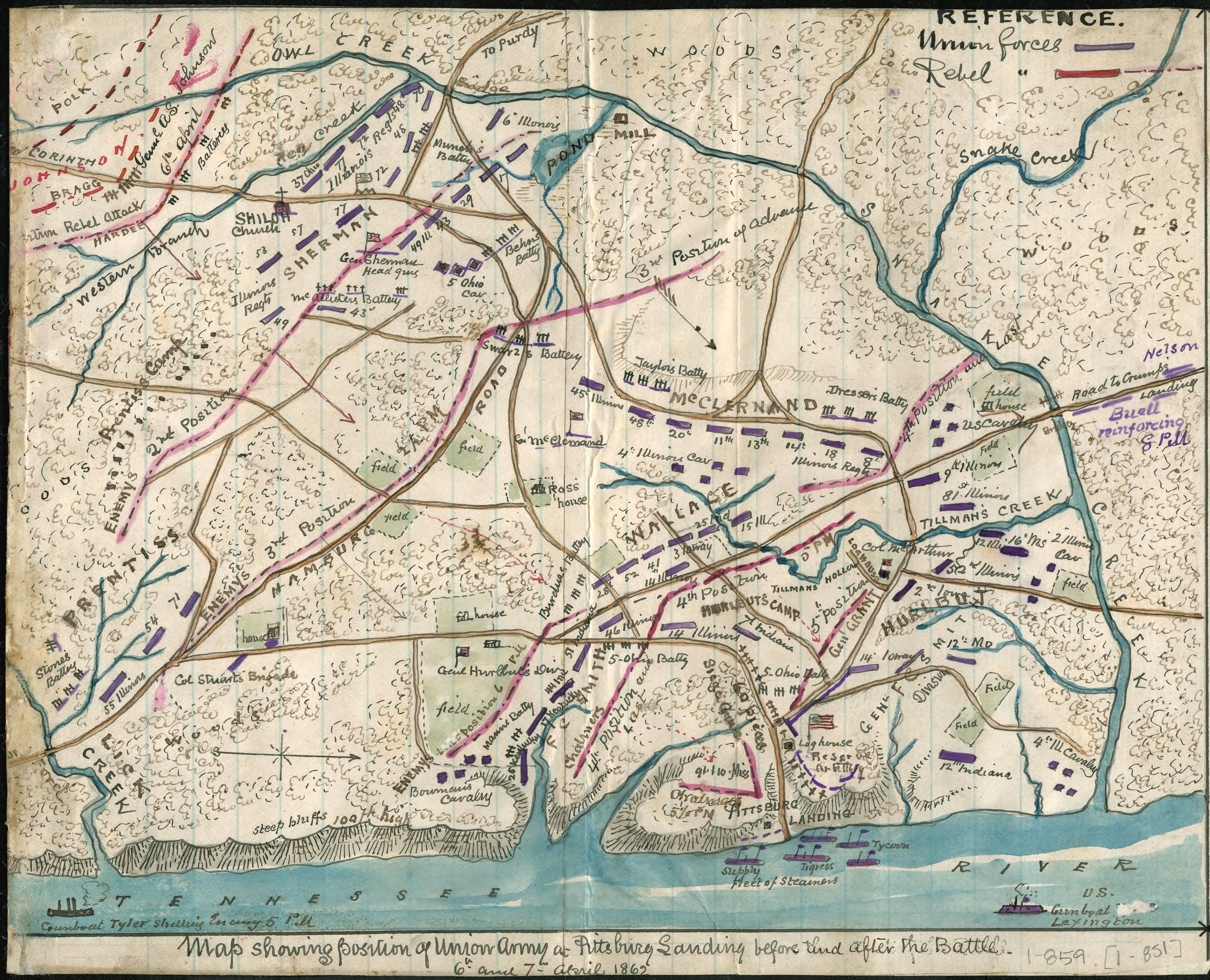 Map showing position of Union Army at Pittsburg Landing before and after the Battle of Shiloh on 6th and 7th April, 1862.Image rendered for tone and sharpness by Gwillhickers This image is available from the United States Library of Congress's Prints and Photographs division under the digital ID tag does not indicate the copyright status of the attached work. A normal copyright tag is still required. See Commons:Licensing for more information.